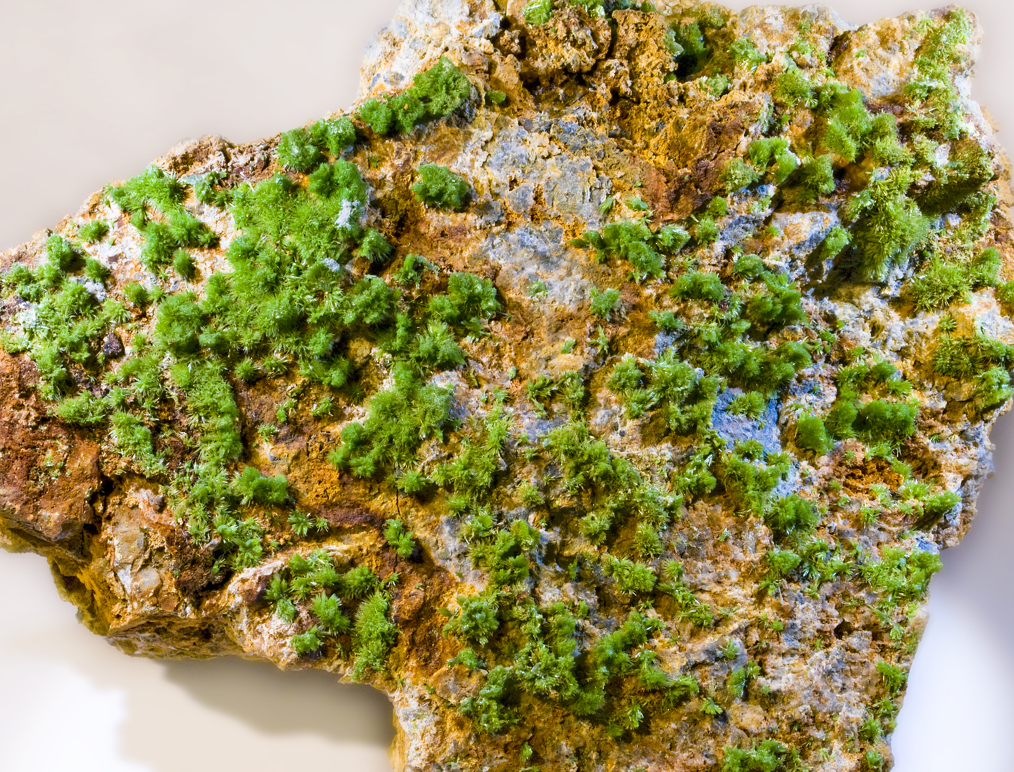 Pyromorphite, Saint-Salvy Mine, Saint-Salvy-de-la-Balme, Tarn, Midi-Pyrénées, France (24x18cm)